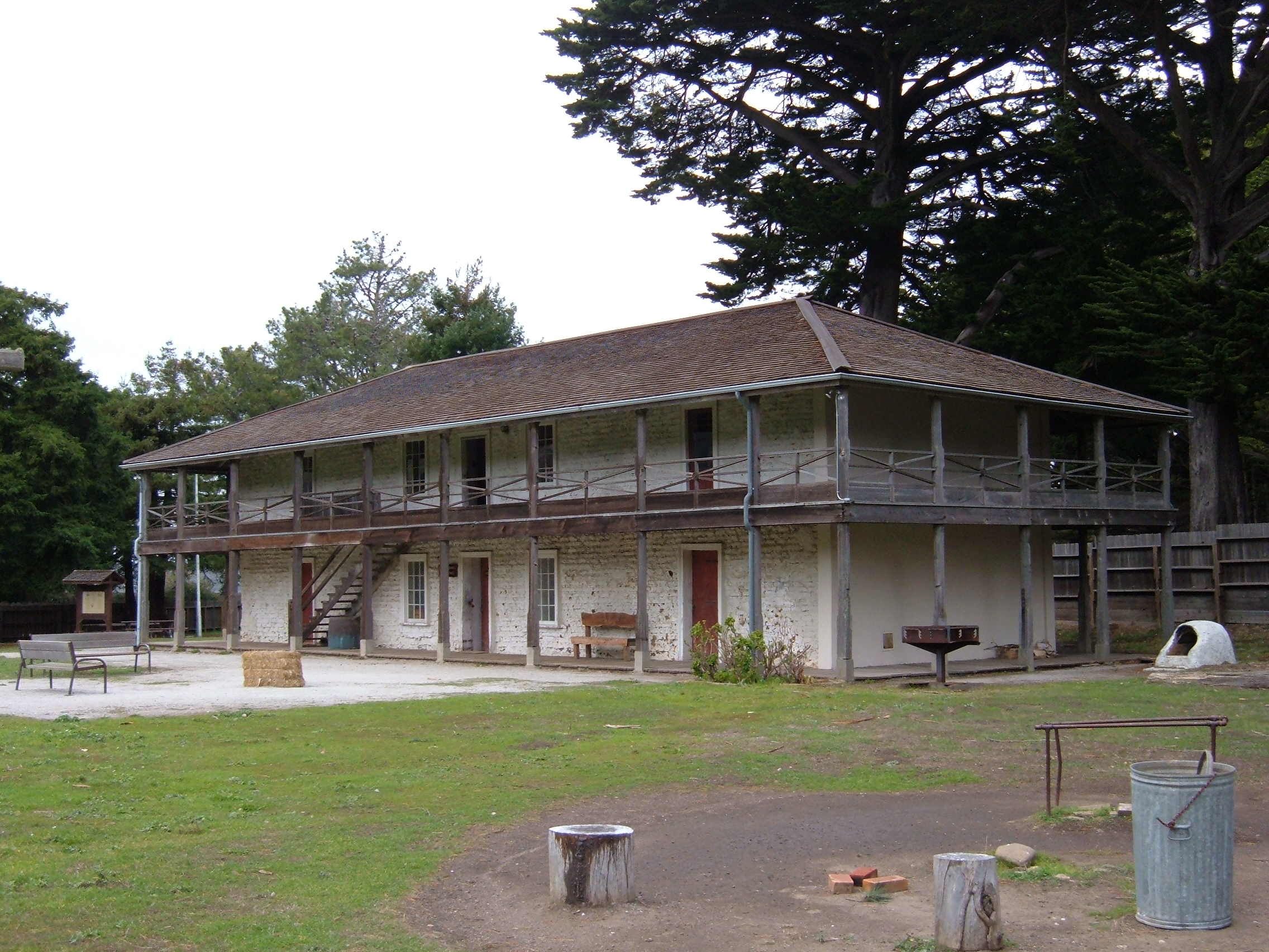 The Sánchez Adobe at the Sánchez Adobe Park in Pacifica, California